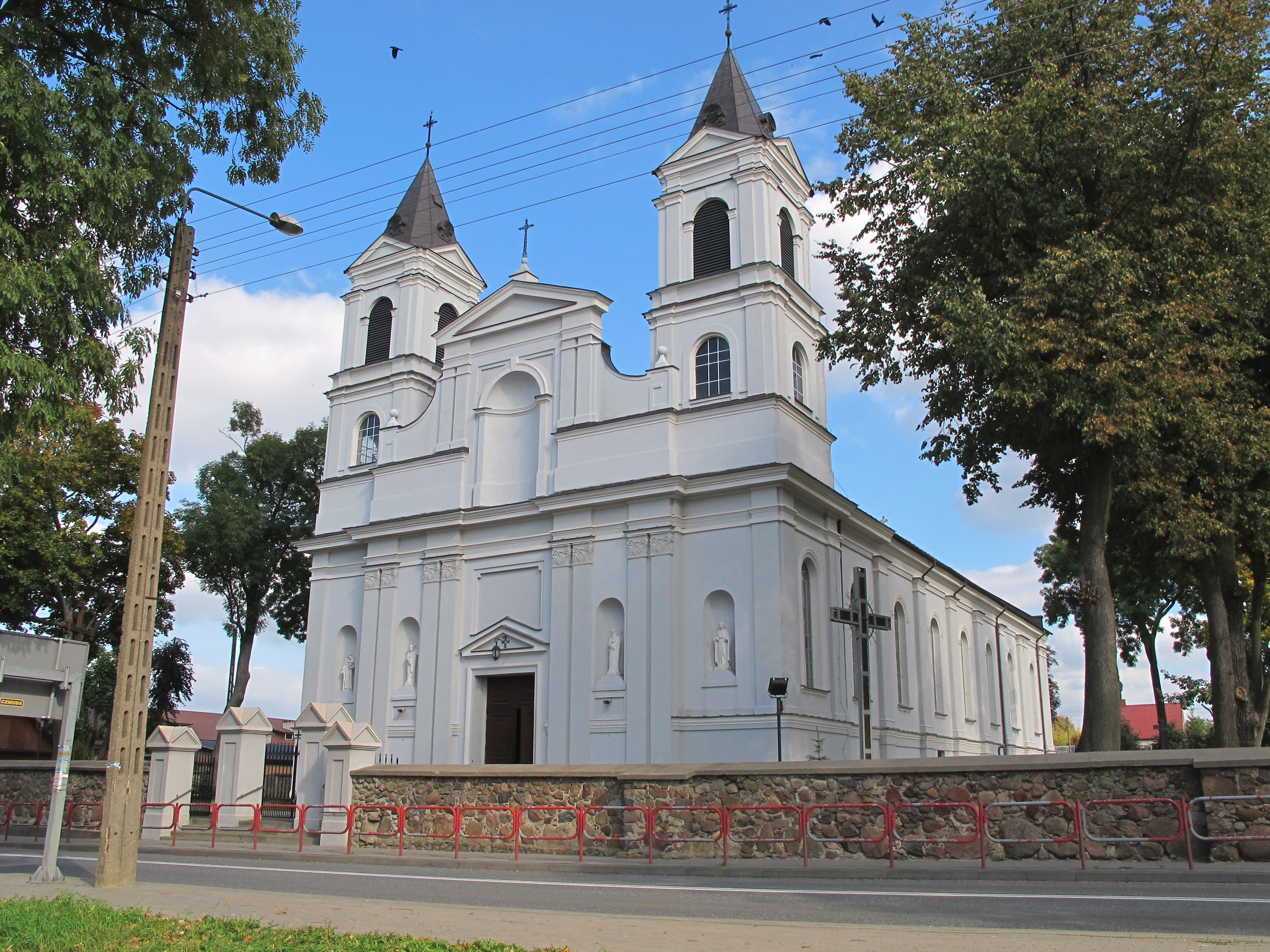 Saints Peter and Paul church by Kościuszki sq. 3 in Suchowola, gmina Suchowola, podlaskie, Poland